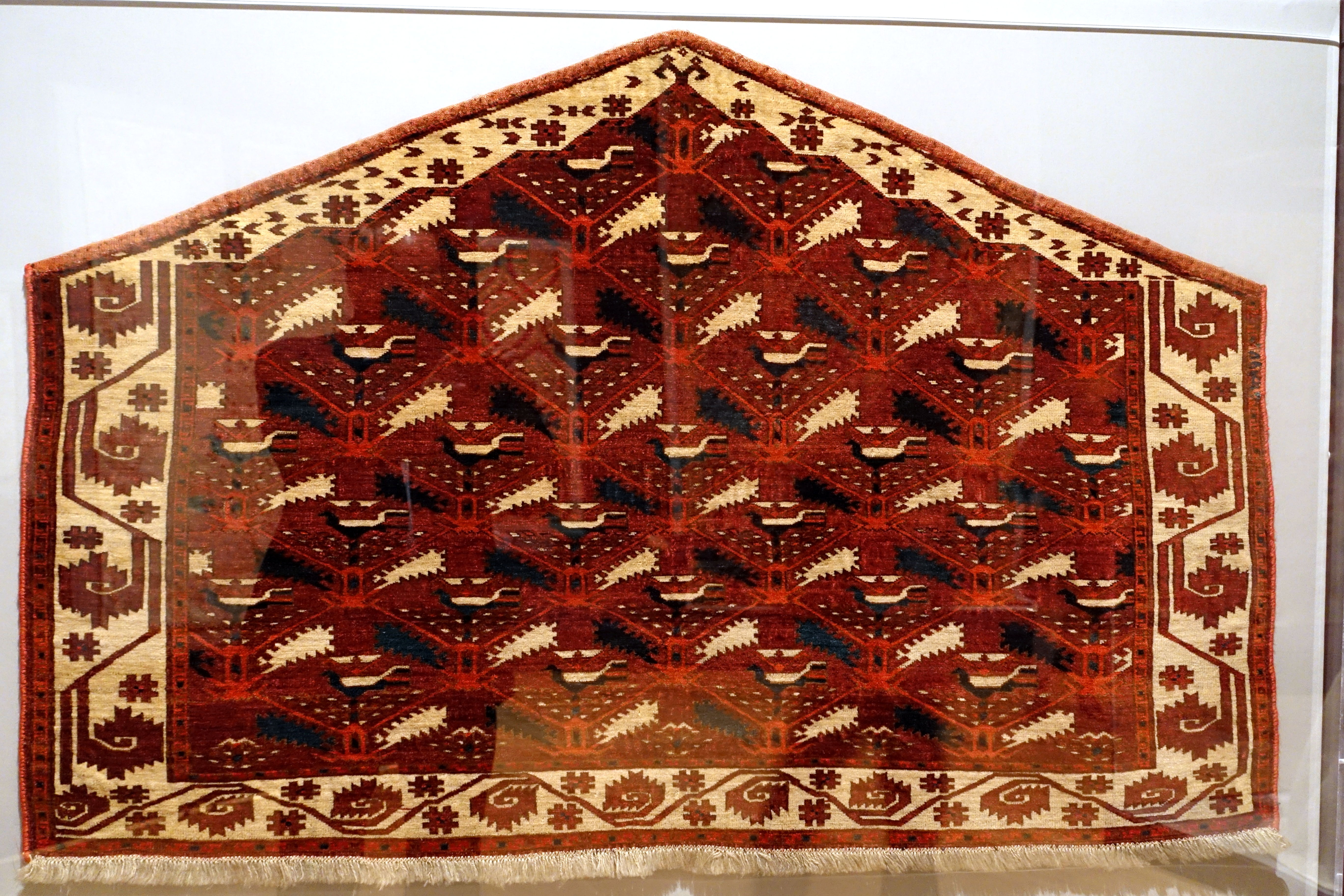 Exhibit in the Textile Museum, George Washington University, Washington, DC, USA. This work is old enough so that it is in the public domain.